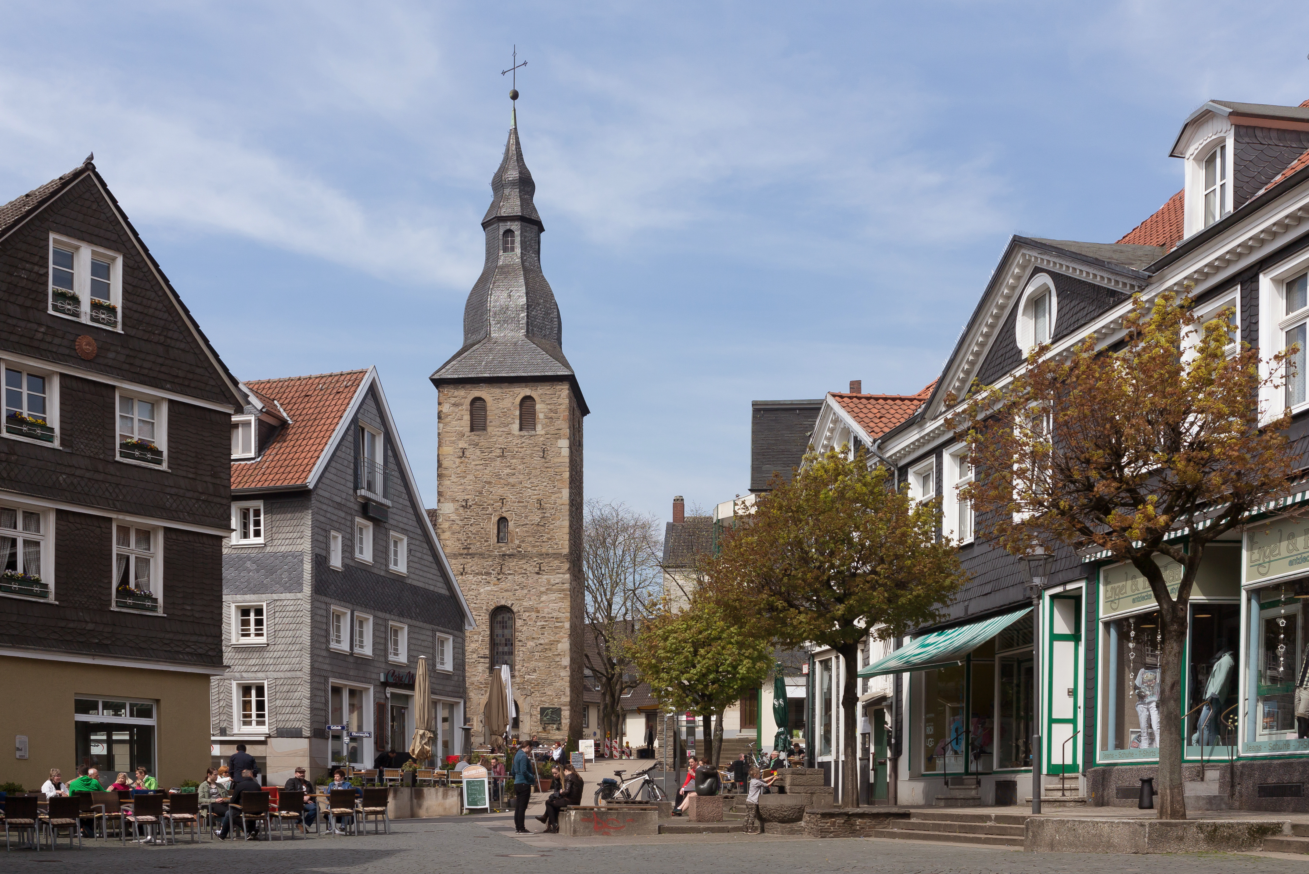 Hattingen, der Glockenturm in the street This is a photograph of an architectural monument.